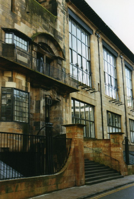 Glasgow School of Art. 1897 (first part), designed by Charles Rennie Mackintosh